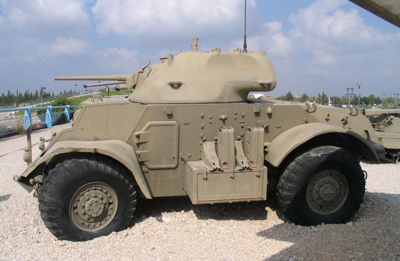 Description: T17E1 Staghound armored car in Yad la-Shiryon Museum, Israel. 2205. Source: Photo by me, User:Bukvoed.